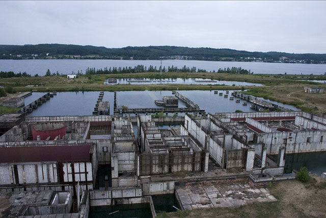 Unfinished remains of main building of Żarnowiec Nuclear Power Plant. Photo by Michał Kotas.